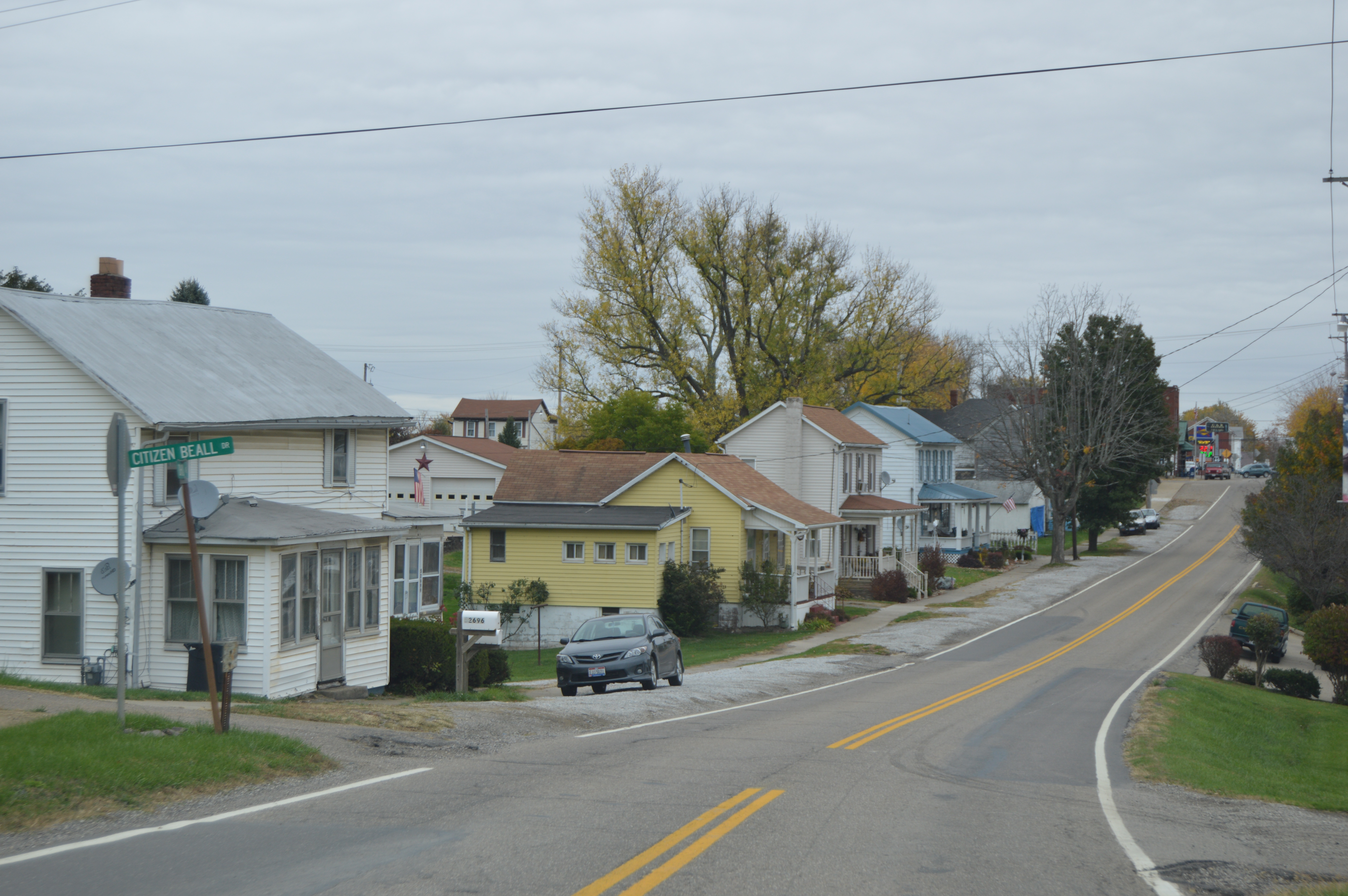 Houses on the northern side of Ohio Avenue (State Route 145) in western Beallsville, Ohio, United States.